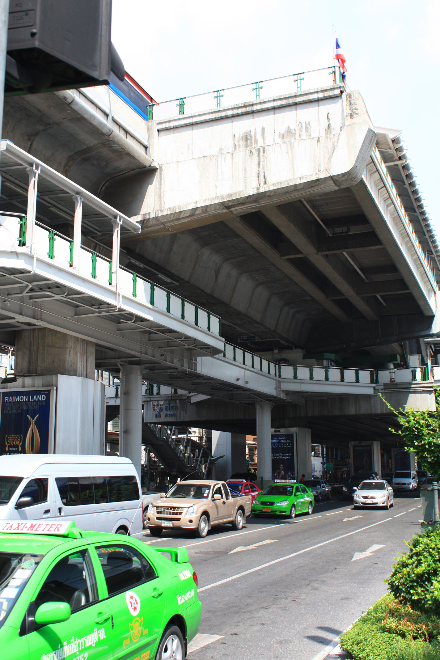 BTS Asoke Station, Bangkok, Thailand.